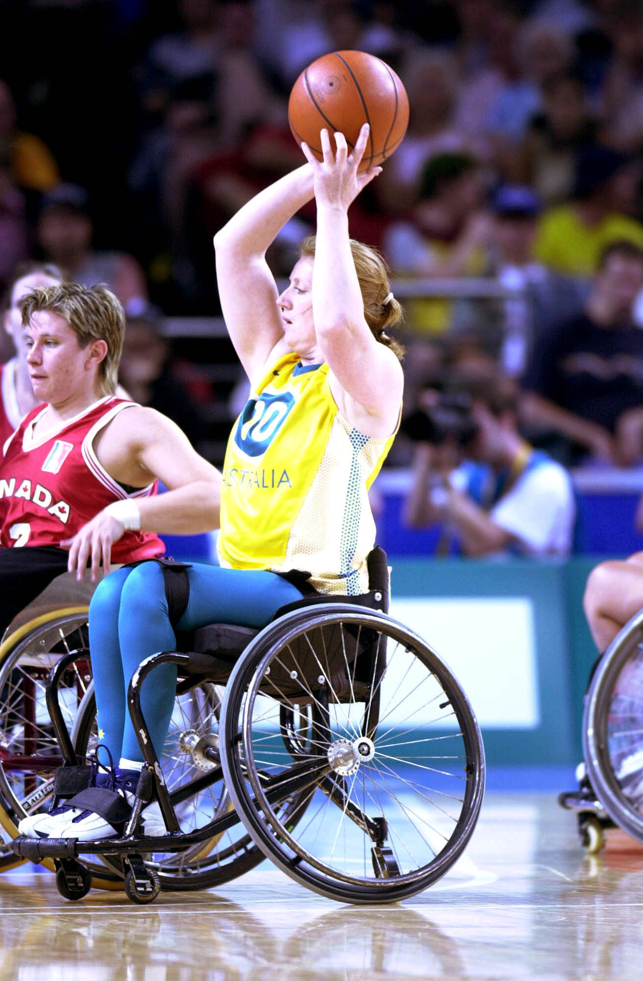 Australian wheelchair basketballer Sharon Slann with the ball during 2000 Sydney Paralympic Games match